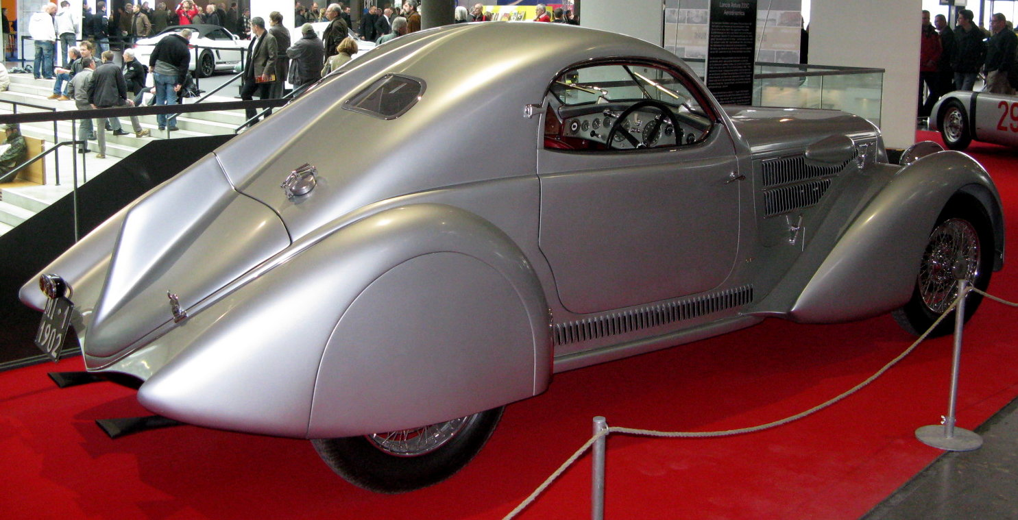 1935 Lancia Astura 233 C Aerodynamica